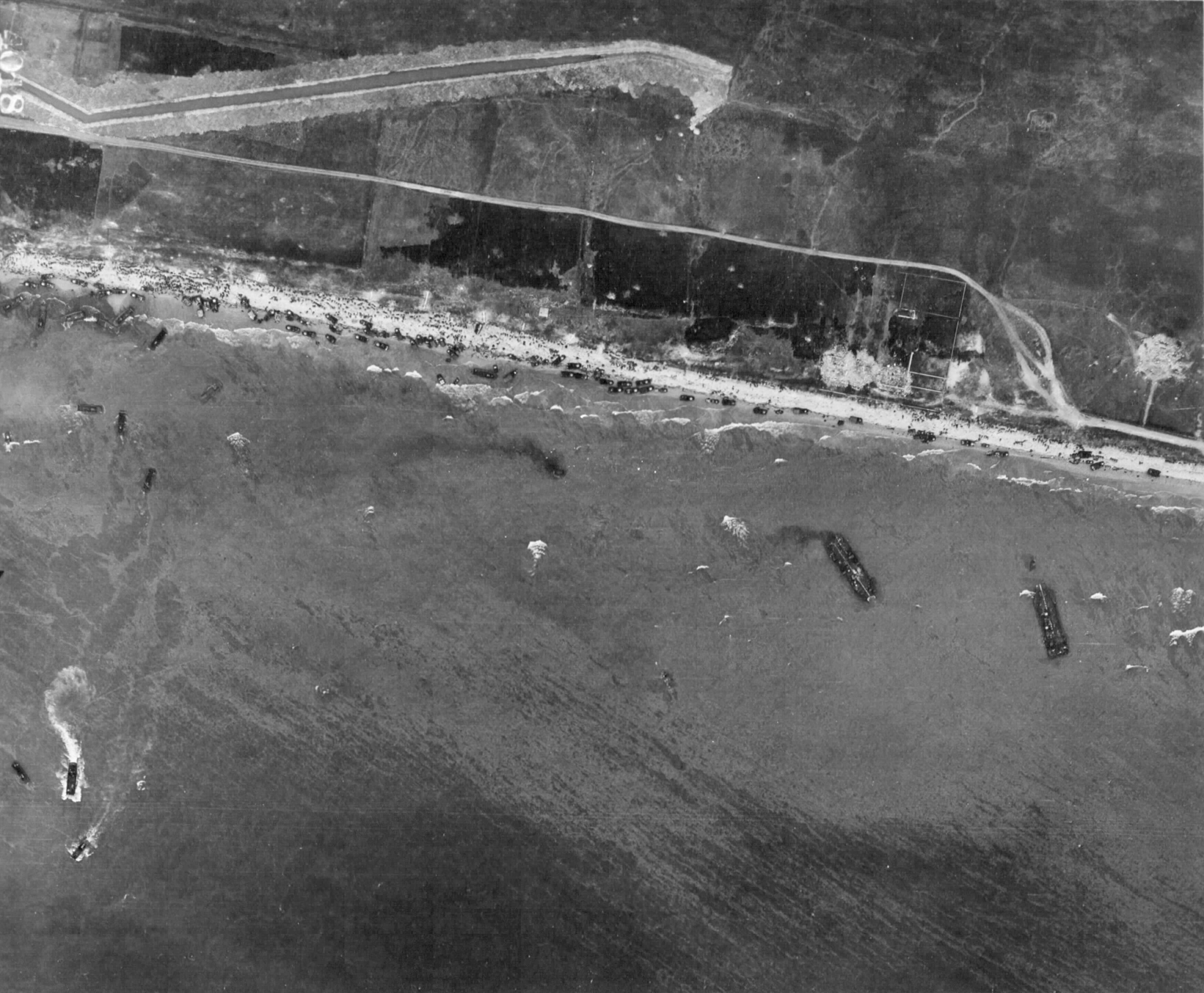 "aerial view of Omaha Beach, Normandy, France, taken 6 June 1944, showing landing of two infantry regiments 18th and 115th, vehicles, and landing craft."